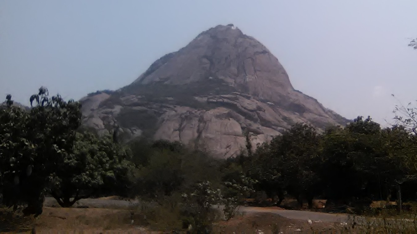 ககனகிரி அல்லது பெரியமலை என்பது தமிழ்நாட்டின் கிருஷ்ணகிரி மாவட்டத்தில் உள்ள ஒரு மலையாகும், இந்தமலையில் கோட்டை உள்ளது.